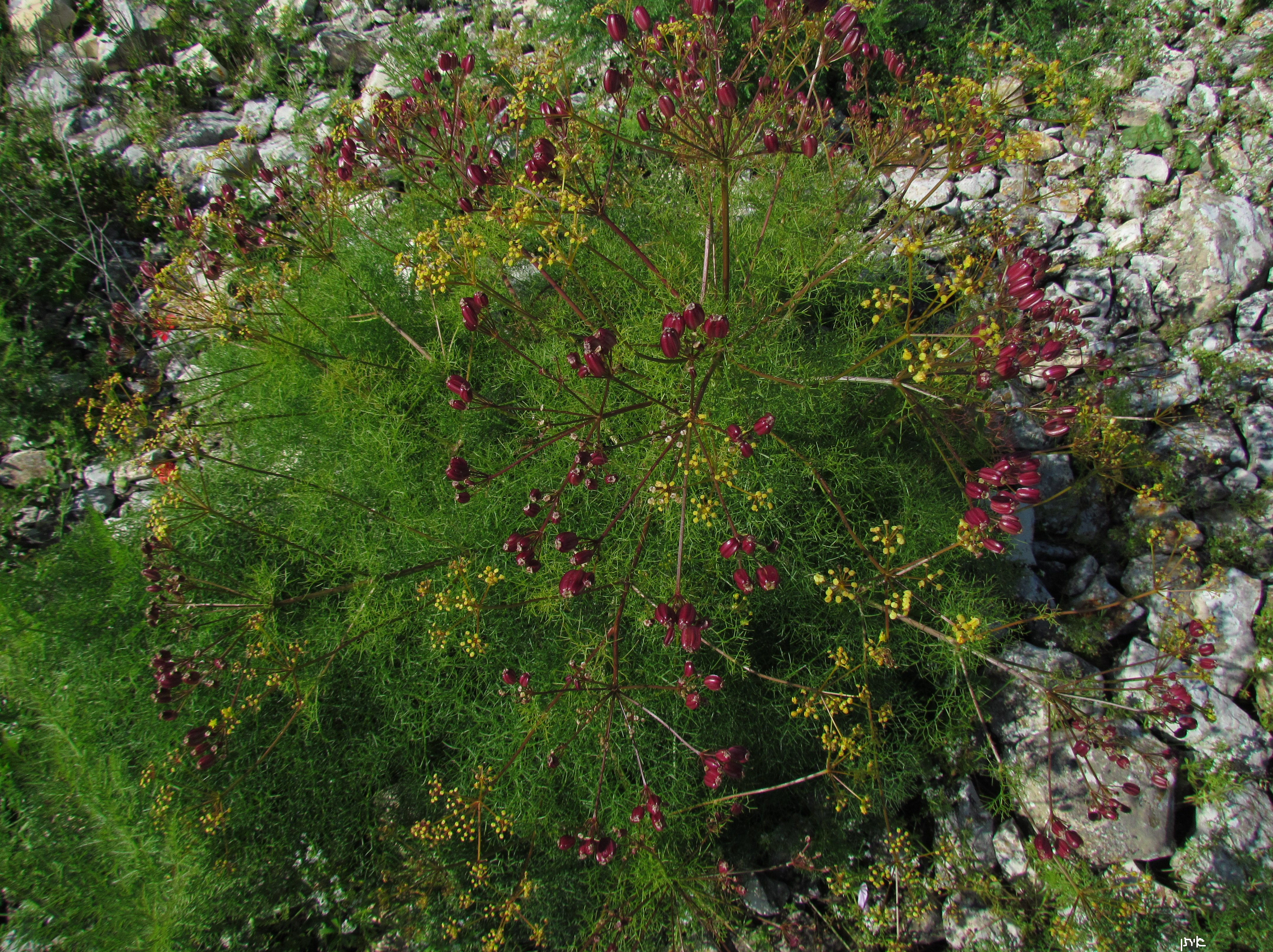 Prangos ferulacea